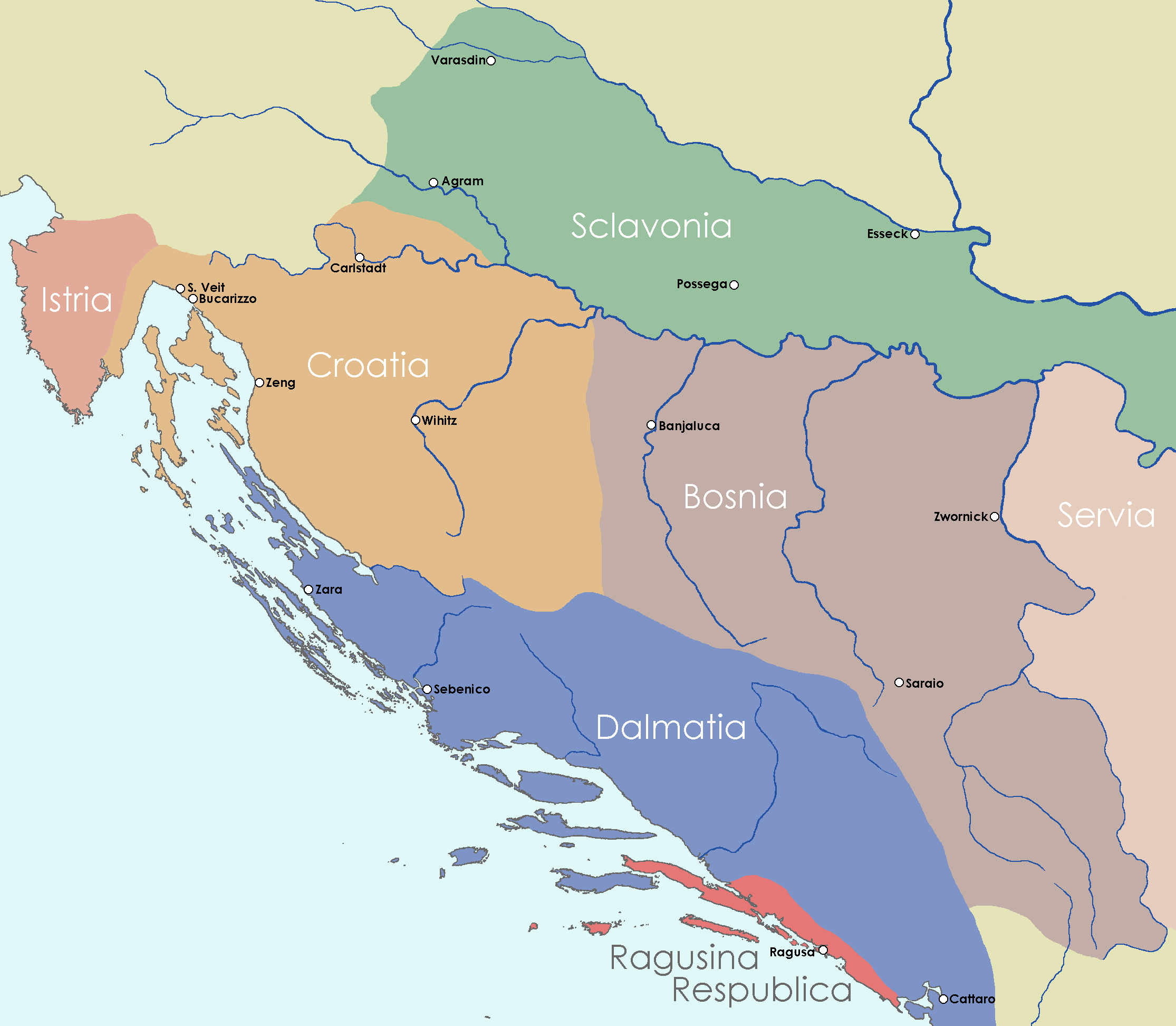 Regions Dalmatia, Croatia, Slavonia, Bosnia, Ragusa and Serbia according to the map of Matthaeus Seuteri from 1720.